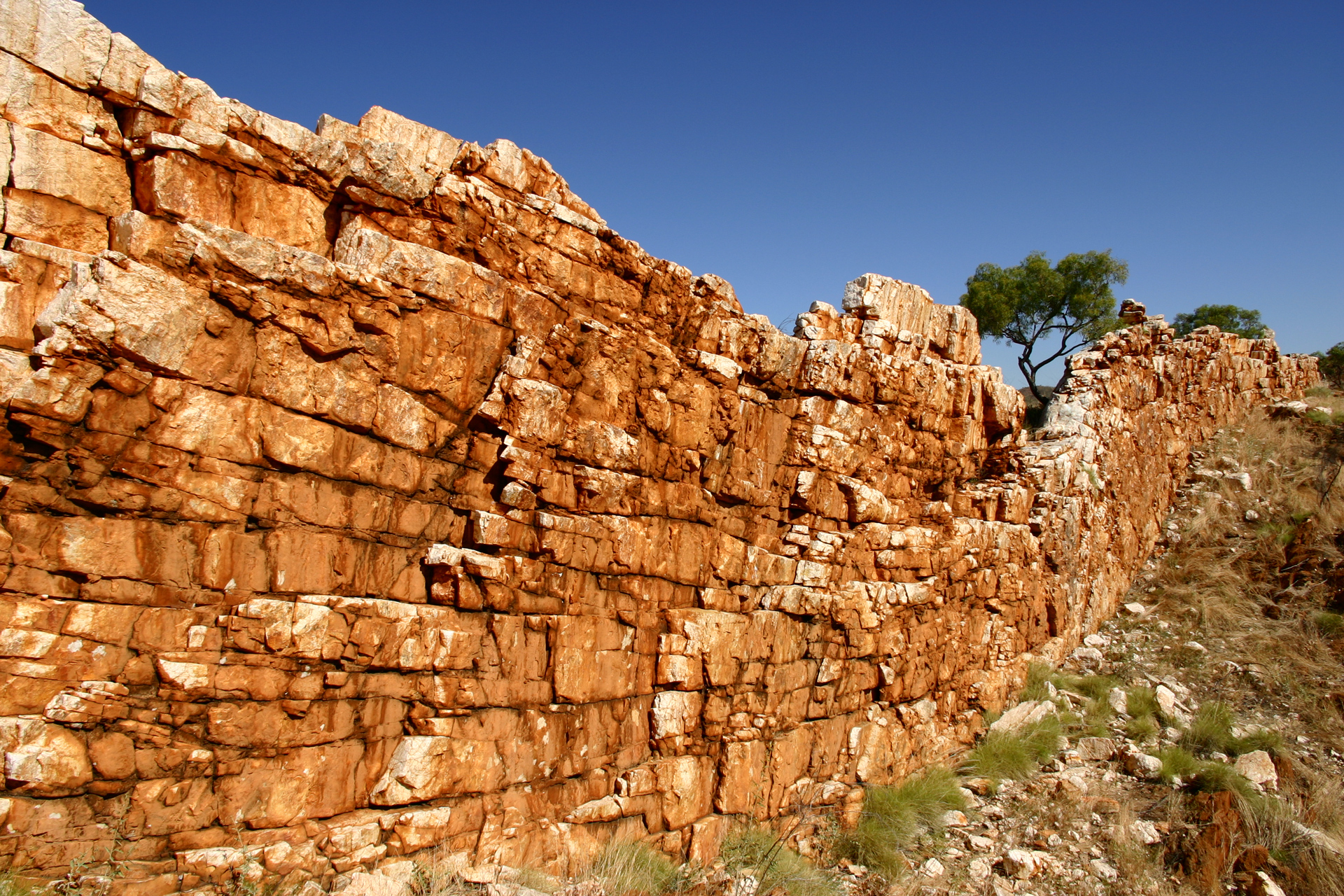 The so called »ChinaWall« near Halls Creek, Western Australia, Australia